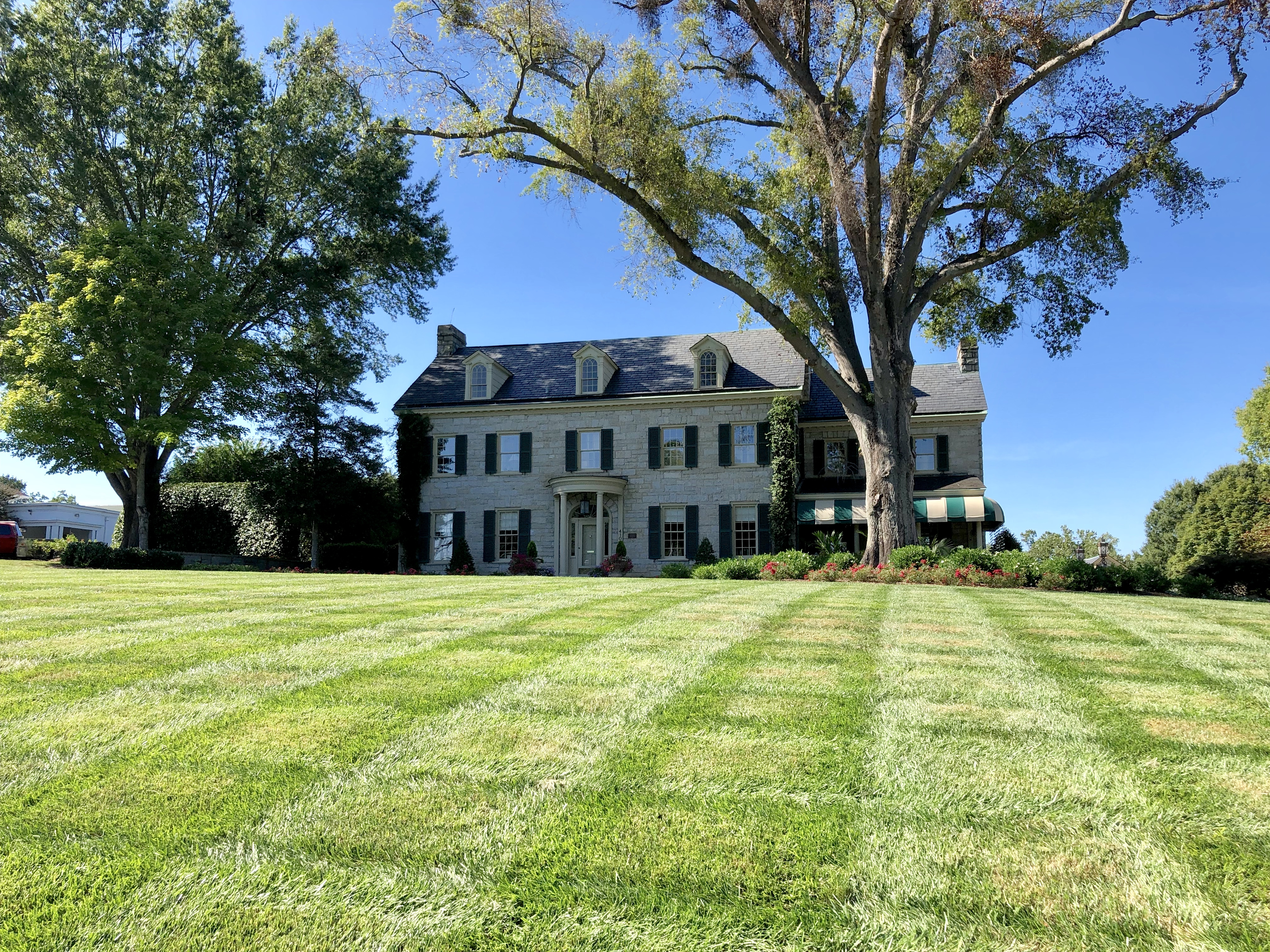 This is the Franklin Pierce Tate House, located on West Union Street in Morganton, North Carolina and constructed in 1928. The house was listed on the National Register of Historic Places in 1986.